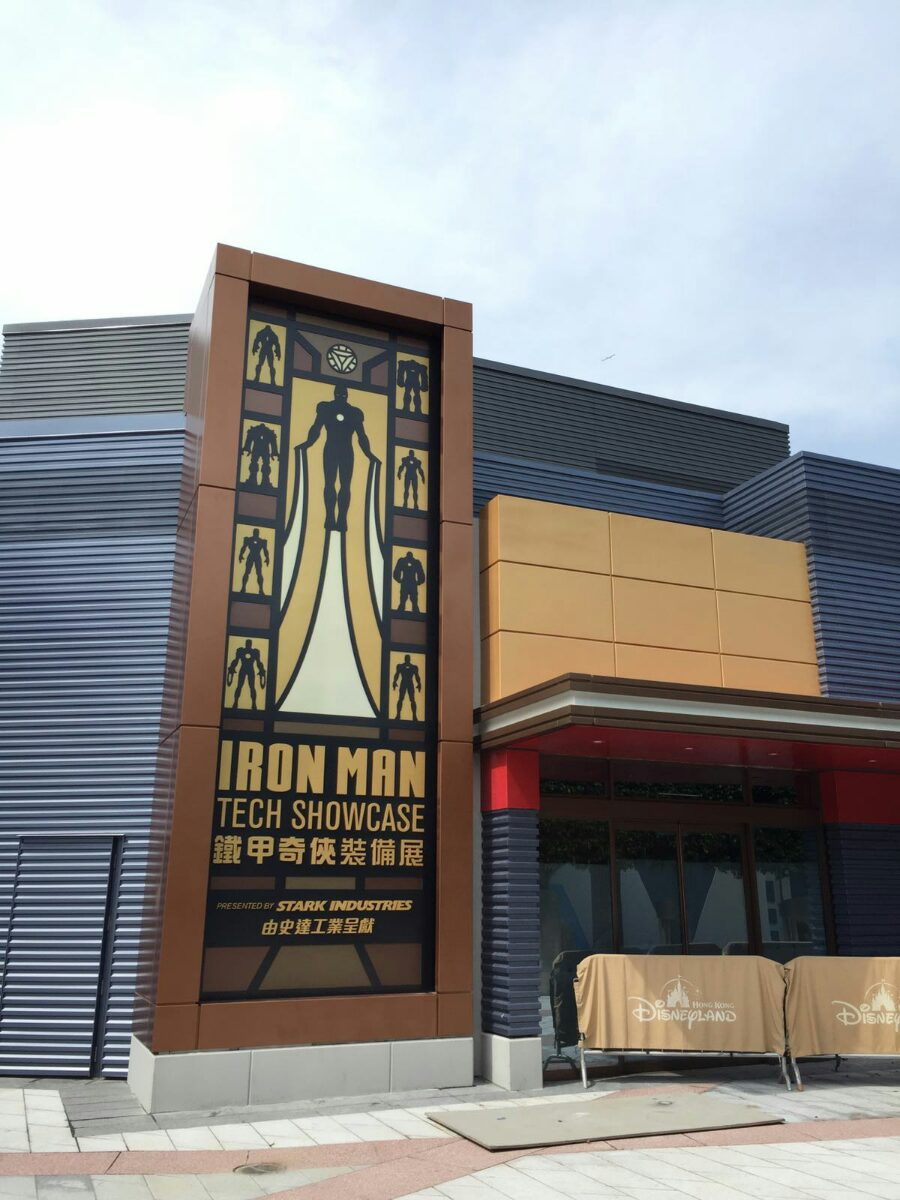 Iron Man tech showcase entrance 粵語: 鐵甲奇俠裝備展